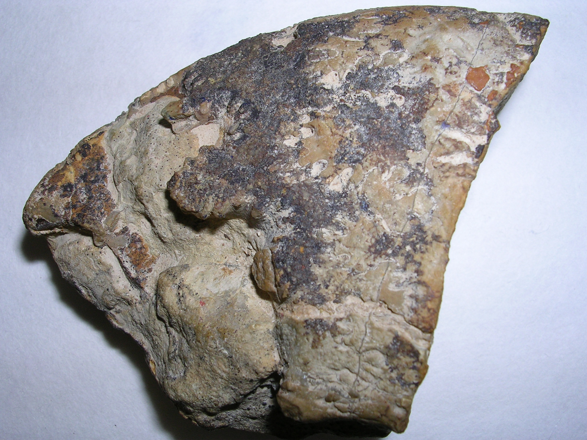 Pleuroceras spiratus fossil (Jurassic) founded in Germany, in a laboratory of practices of the Faculty of Sciences of the University of Corunna.